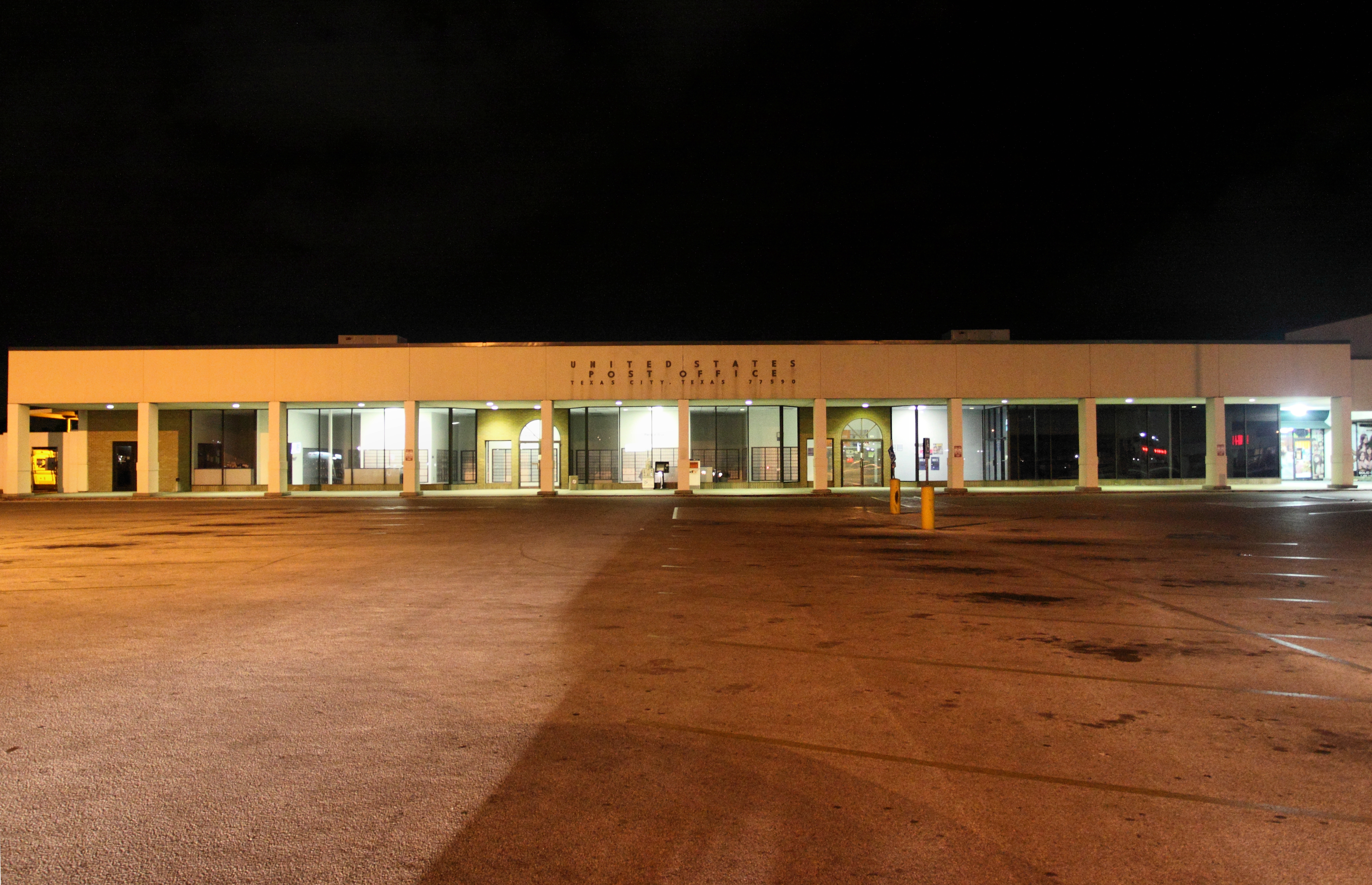 U.S. Post Office. Texas City, Texas, USA. 77590/77591